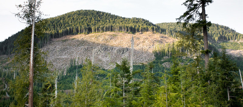 A massive clearcut of old-growth forest on a hillside in the Gordon River Valley near Port Renfrew, BC. BC's endangered ancient forests are quickly being liquidated and replaced with second growth tree plantations.